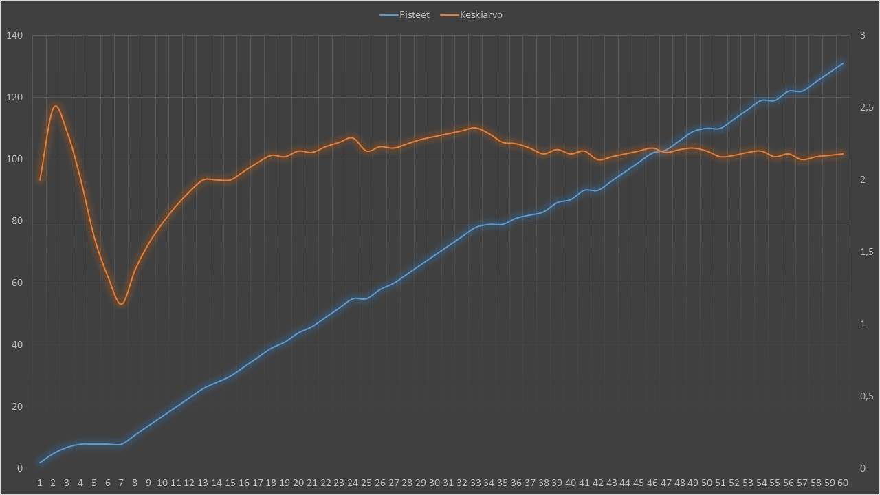 SM-Liiga team Kärpät Oulu points in the 2013–14 season